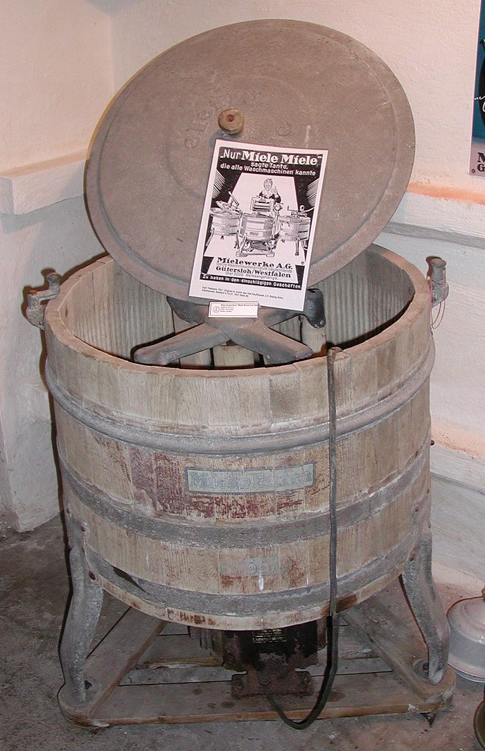 Old Miele Washing Machine Description: Miele "Extra" washing machine in the Historic Department Store, Nordenham Photo: Wilfried Wittkowsky, 2005